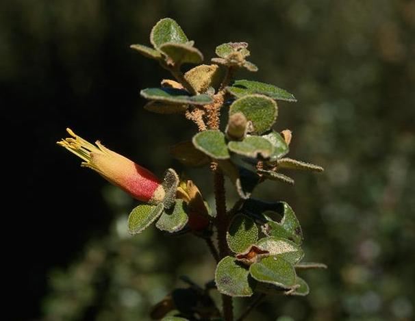 Correa backhouseana var. orbicularis in the Australian National Botanic Gardens, Canberra